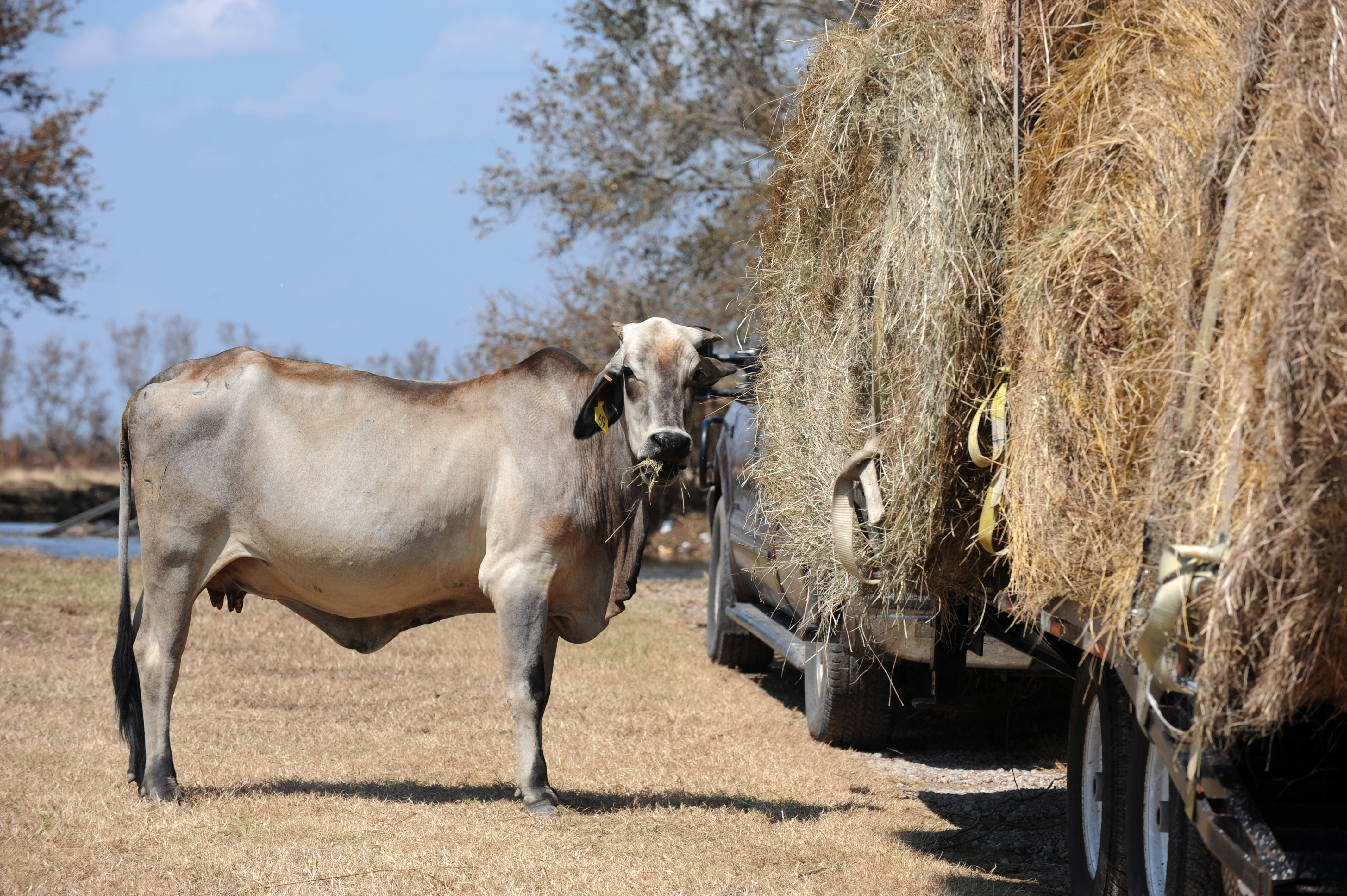 Bolivar Peninsula, TX, September 20, 2008-- A cow displaced by Hurricane Ike eats some fresh hay off of a truck that has been brought on to the peninsula to help feed some of the cattle stranded on there due to Hurricane Ike. A number of livestock are stray on the island without food or fresh water. Jocelyn Augustino/FEMA